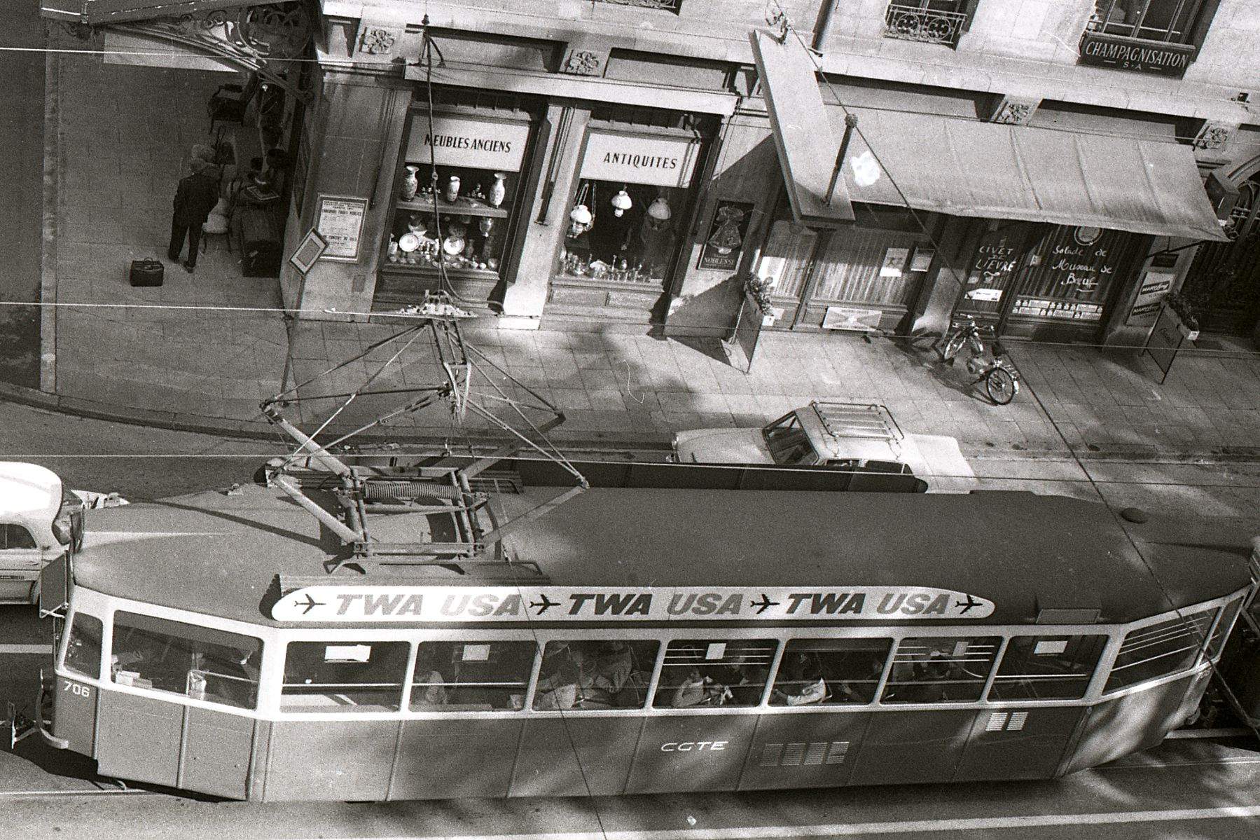 Geneva tram or streetcar as seen from above, July 1973. Advertising around the car is for TWA airline. You can see some shops beyond the sidewalk, or trottoir.